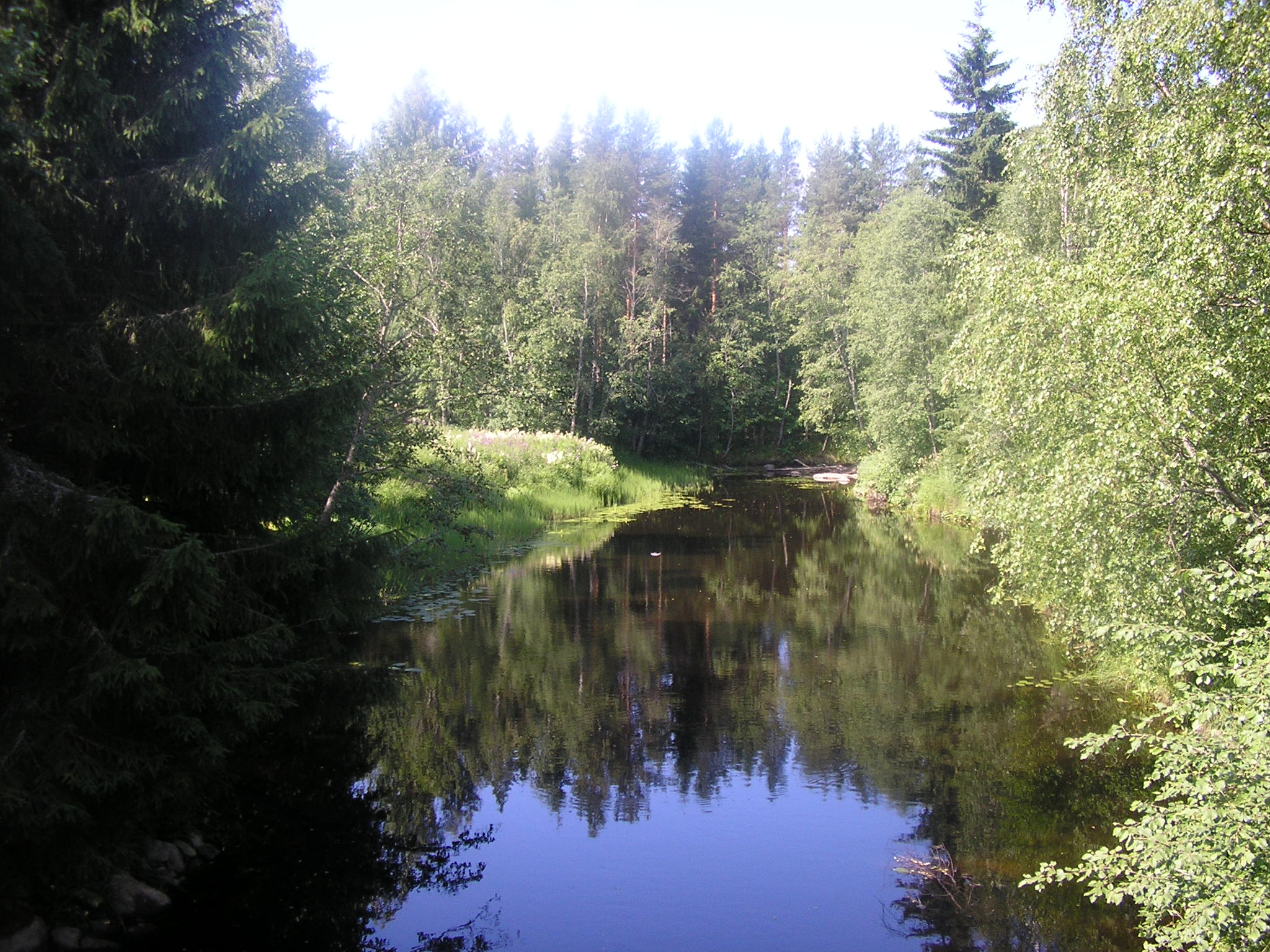 River Töysänjoki in Alavus.